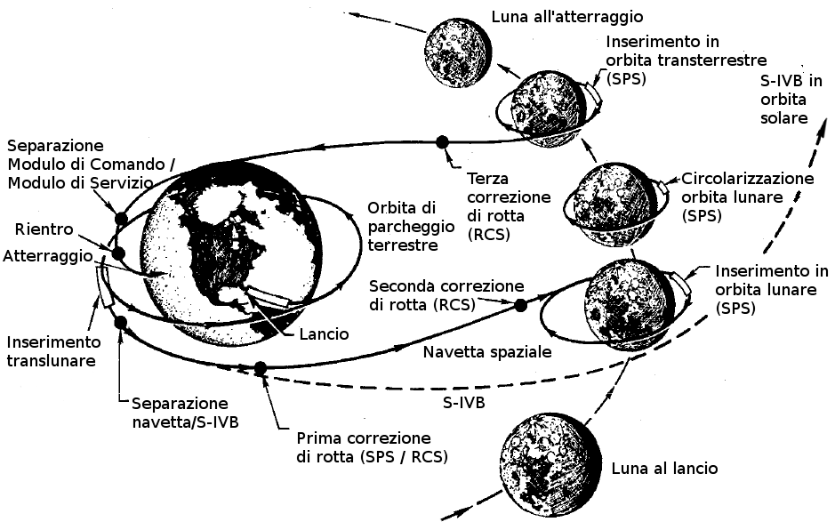 Apollo 8 mission profile